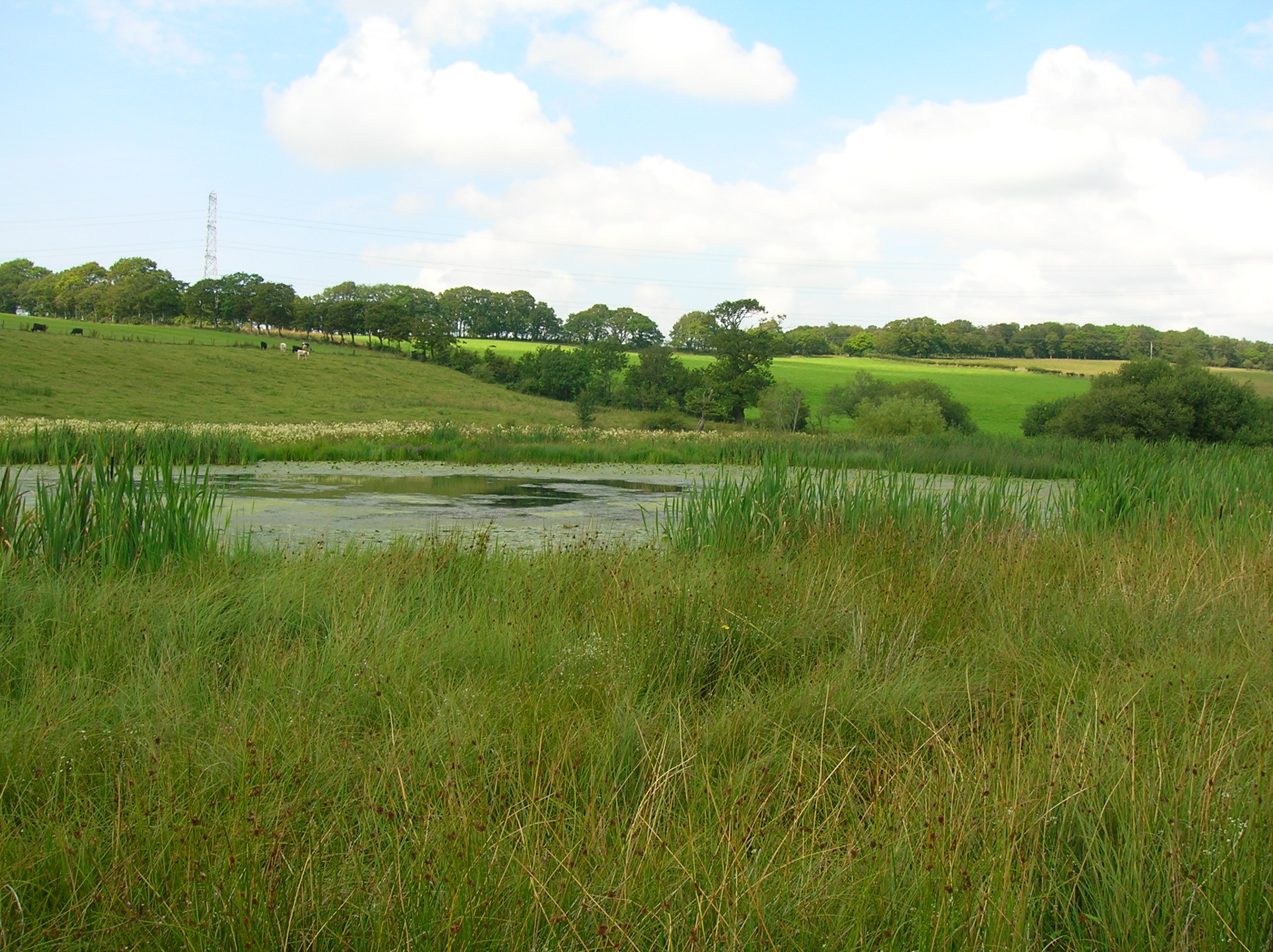 Remaining open water at Lochend Loch, Joppa, South Ayrshire, Scotland.